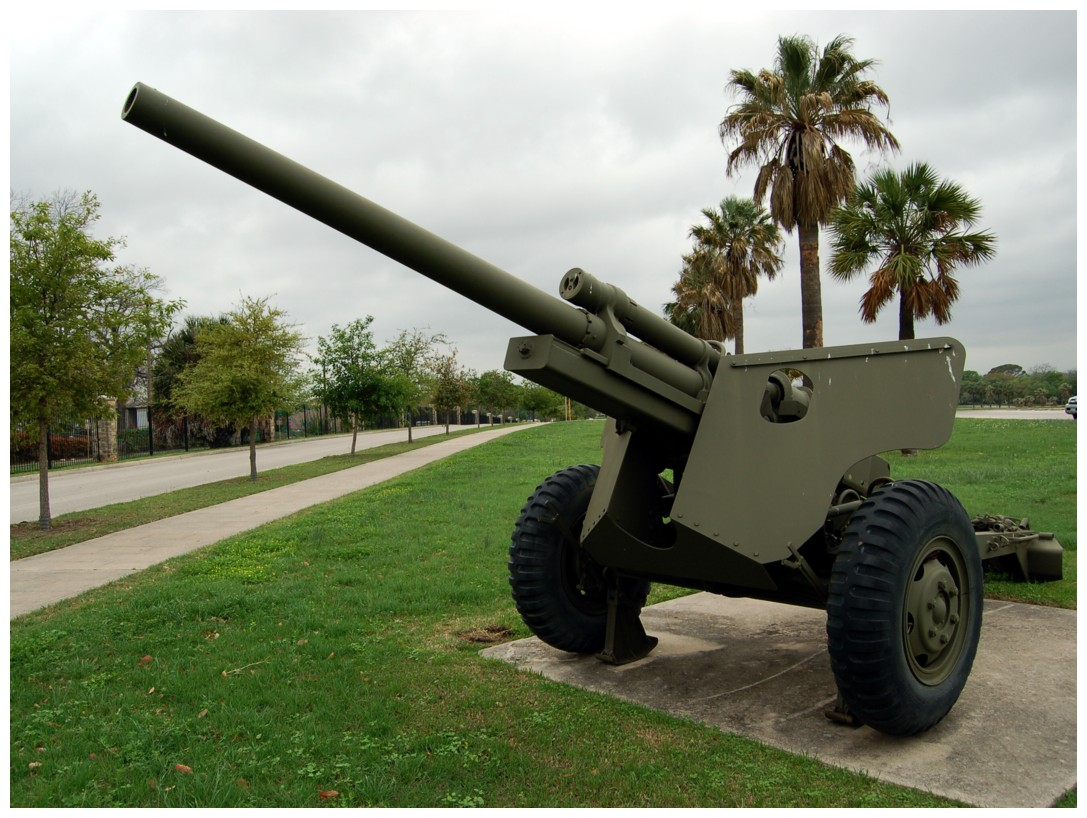 MM-5 Antitank Gun "3" Towed on display at Fort Sam Houston, Texas (March 2007). Photo by Peter Rimar.